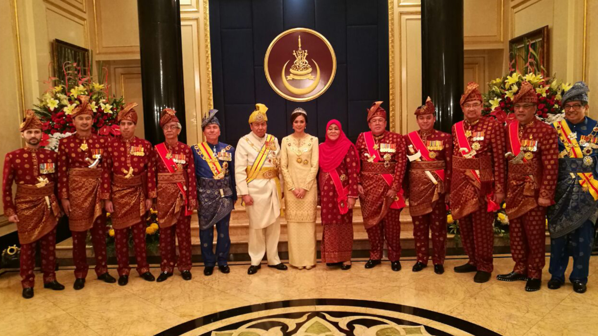 Y.A.D Tengku Dato' Setia Putra Alhaj taken photo with orang-orang besar Selangor